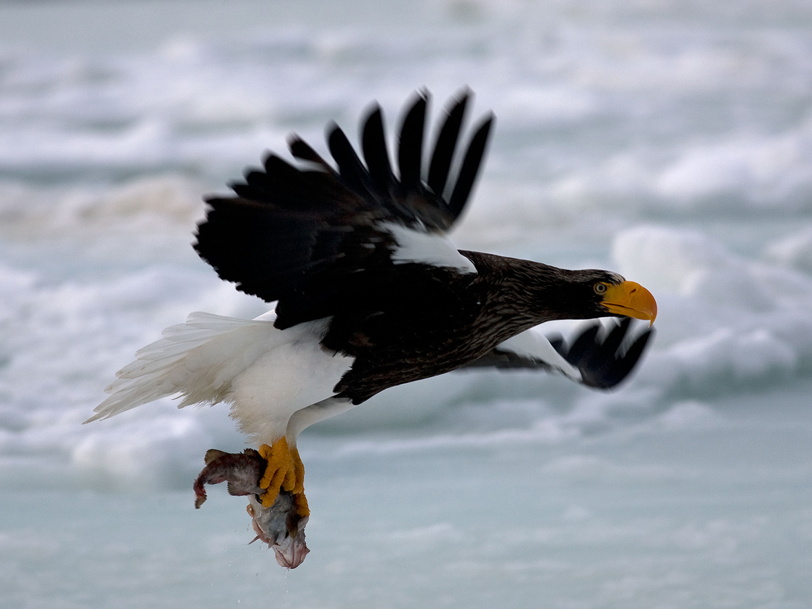 Steller's Sea Eagle dives for a fish. Rausu, Hokkaido, Japan